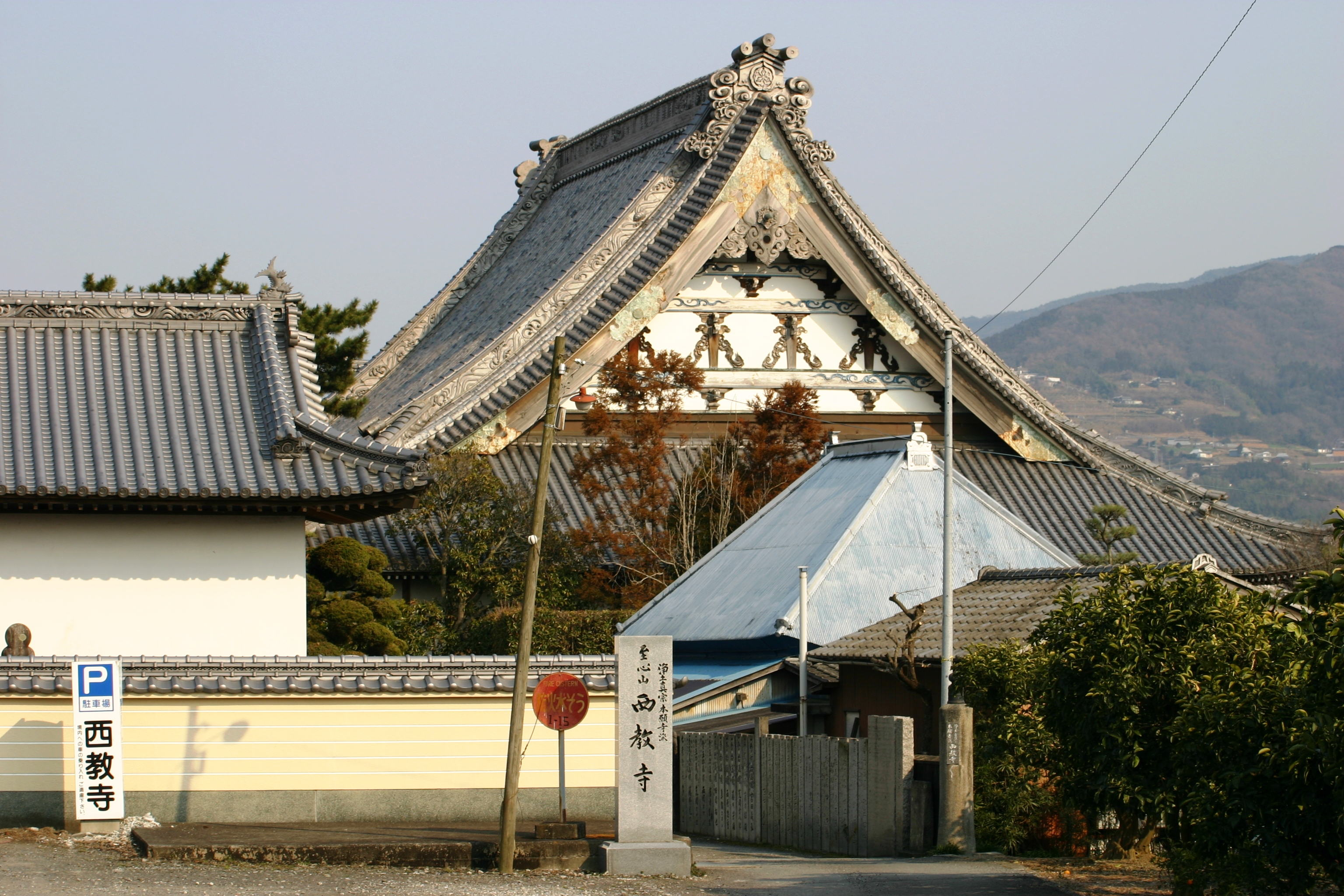 The Saikyō Tempel in Mima-shi, Tokushima-ken